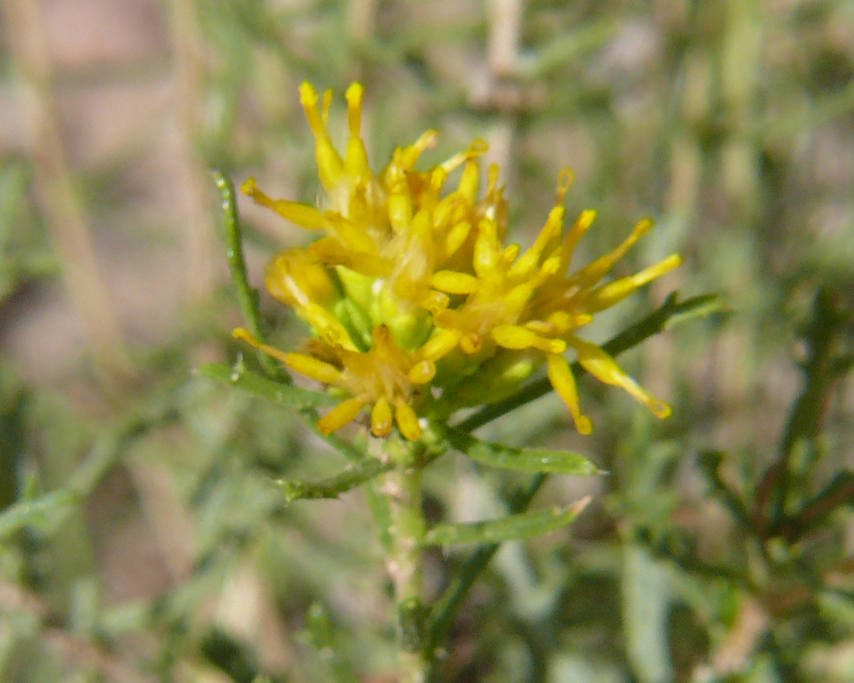 Burroweed (Isocoma tenuisecta), taken 9/17/07, Tucson, AZ